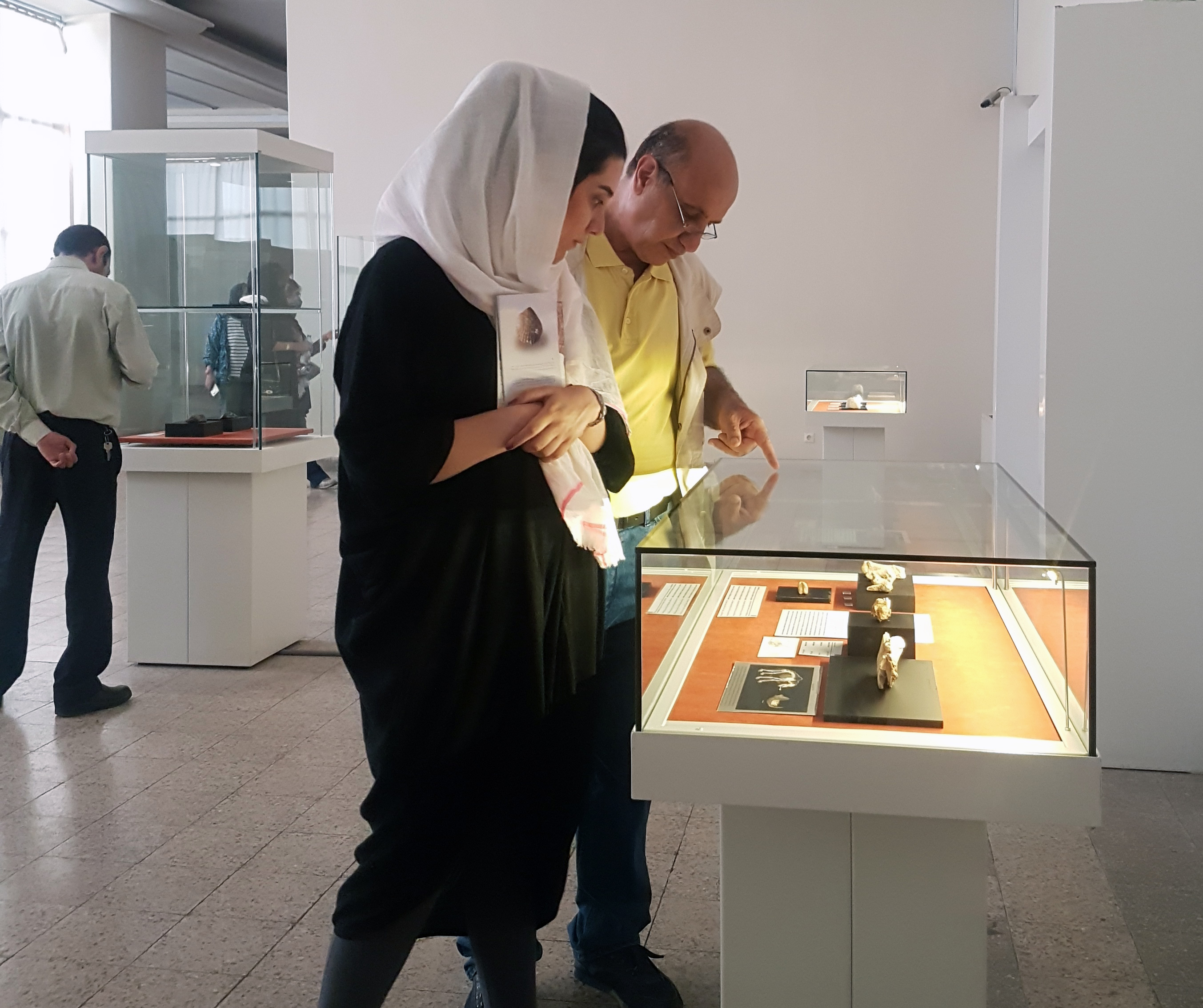 Lower Paleolithic fossils from Darband Cave, Paleolithic hall, National Museum of Iran